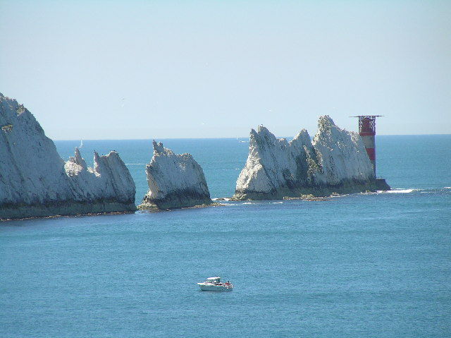 The Needles and Needles Lighthouse. The Needles Lighthouse has been operational since 1859.